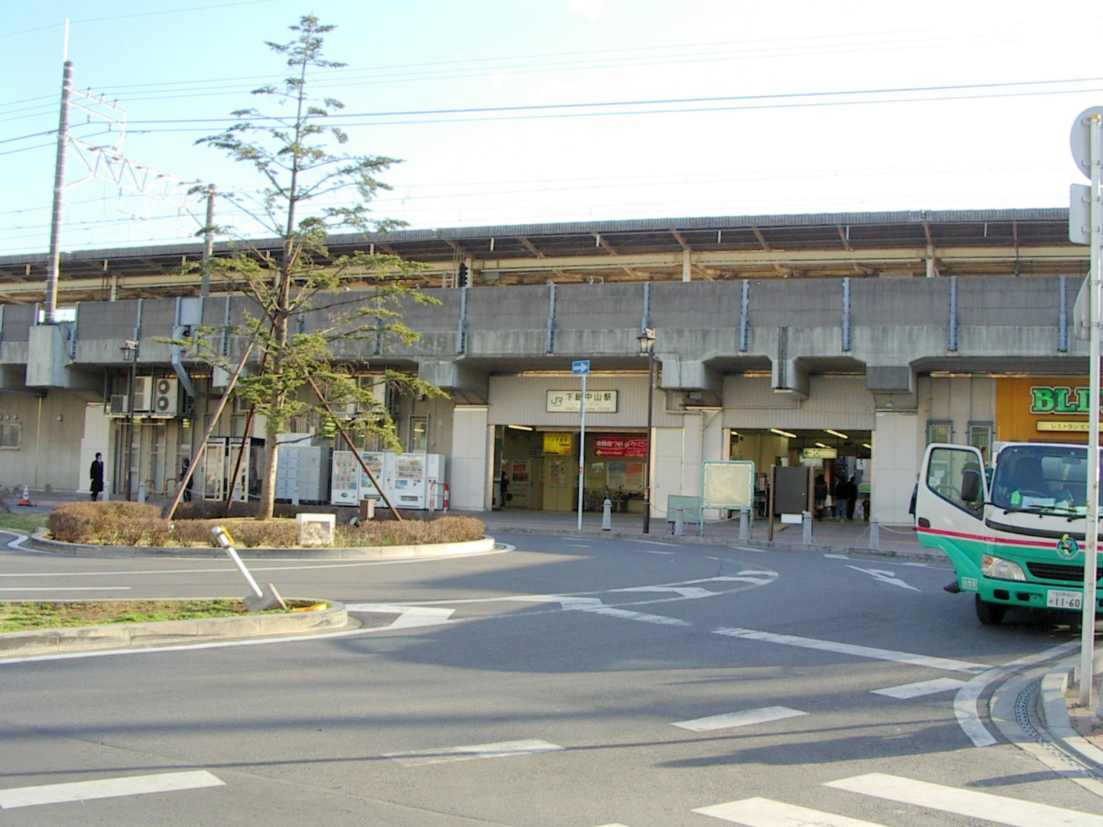 Shimōsa-Nakayama Station north entrance